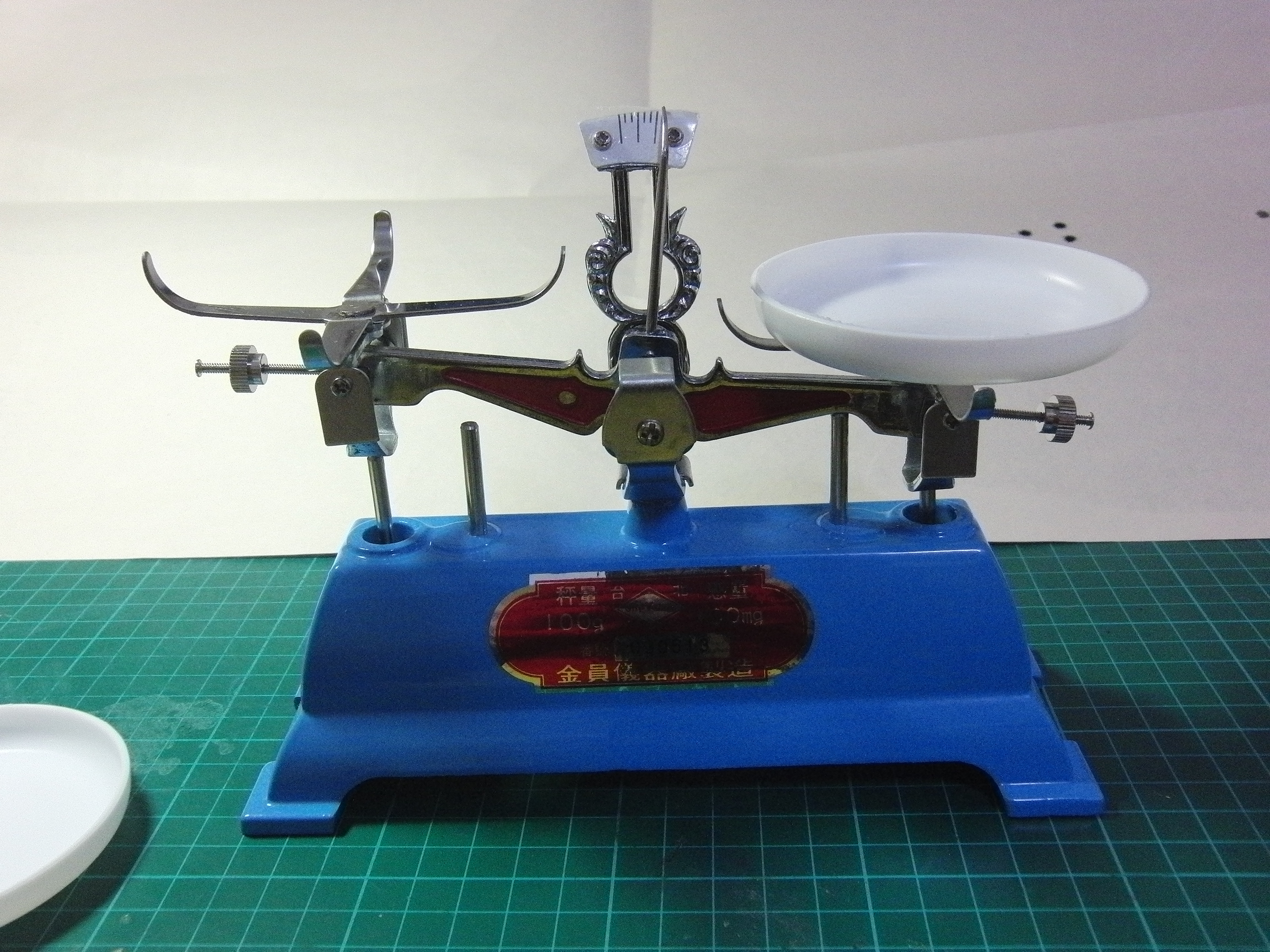 Balance